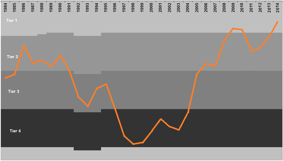 Graph showing the league finishes of Hull City AFC up until 2013